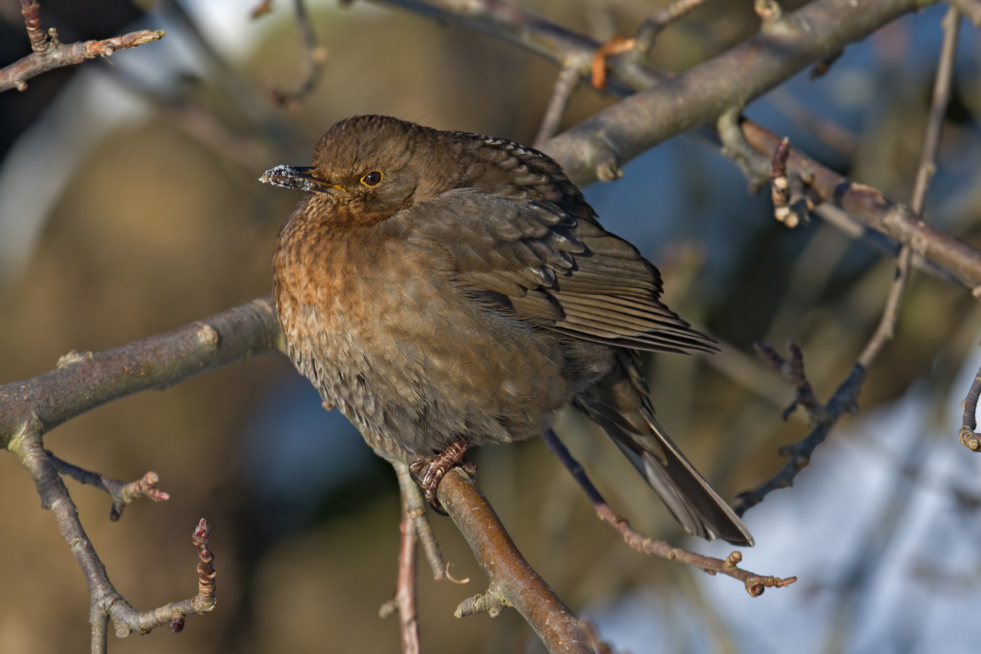 Blackbird (female).